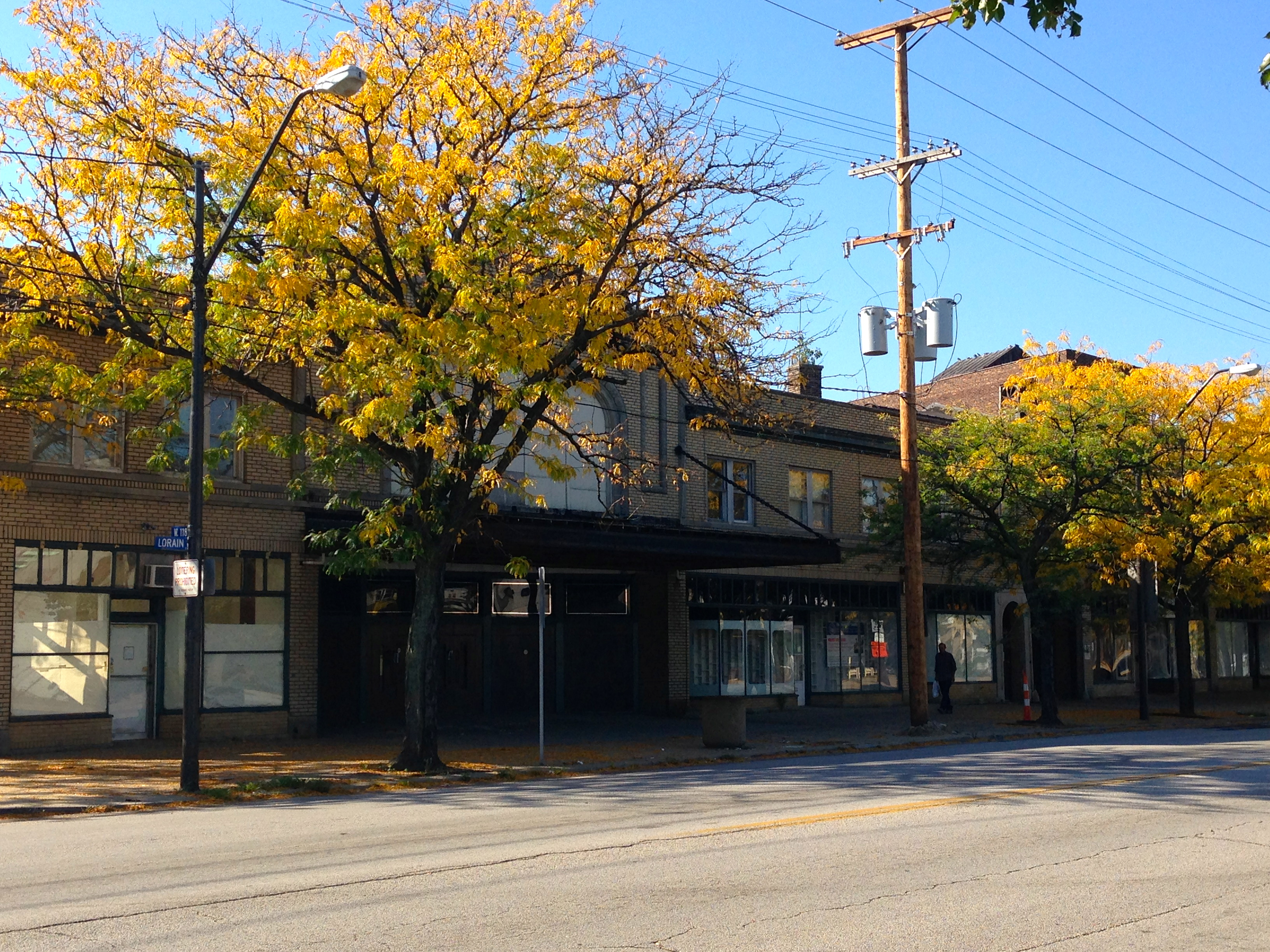 Variety Store Building and Theatre, 11801-11825 Lorain Ave. Cleveland, Ohio